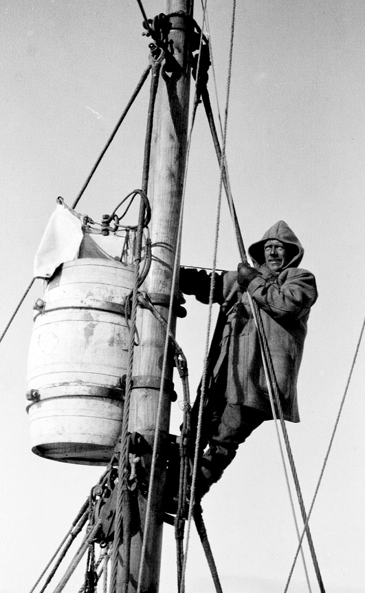 Commander Frank Wild in the masthead of the Quest